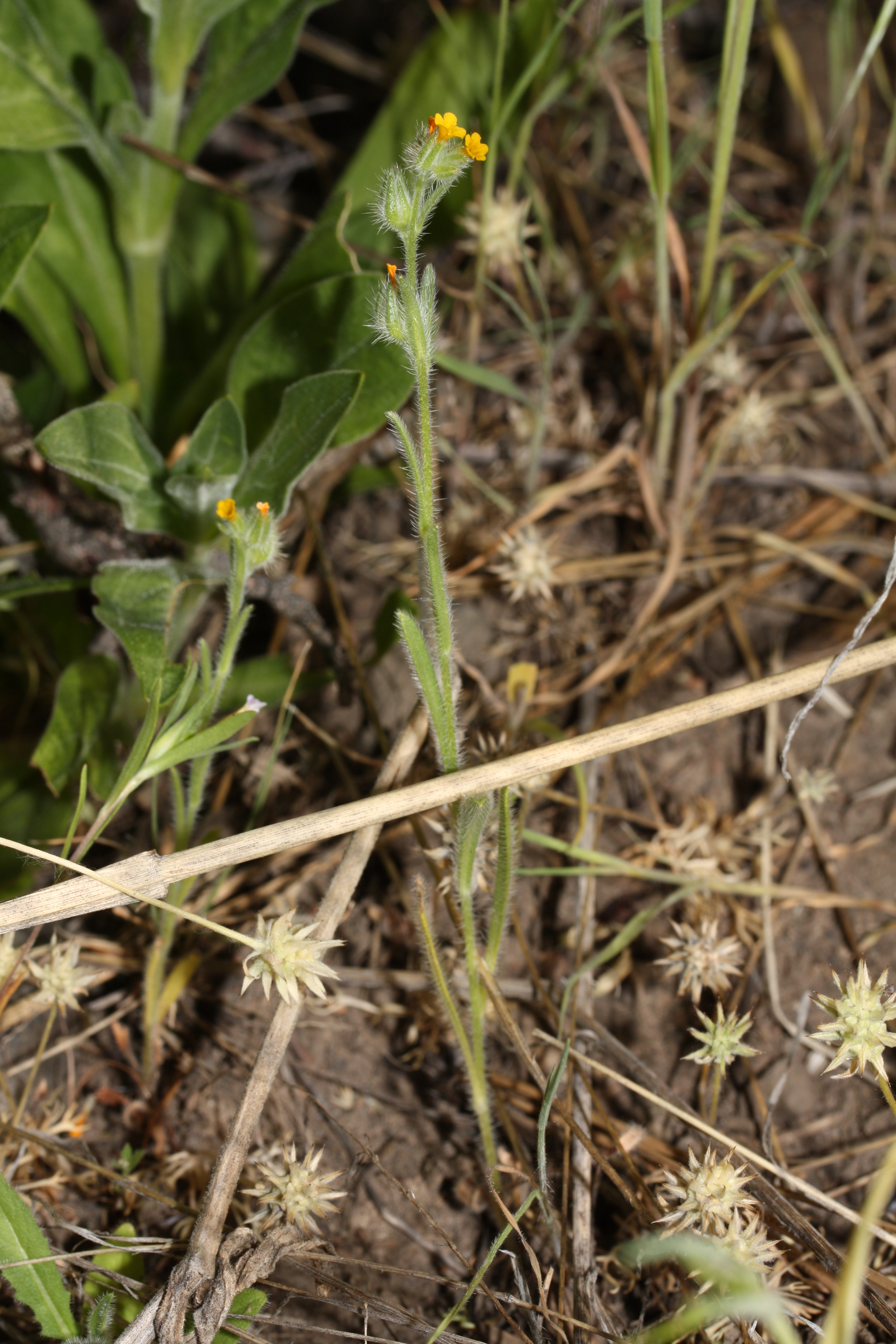 Tarweed Fiddleneck, Bugloss Fiddleneck